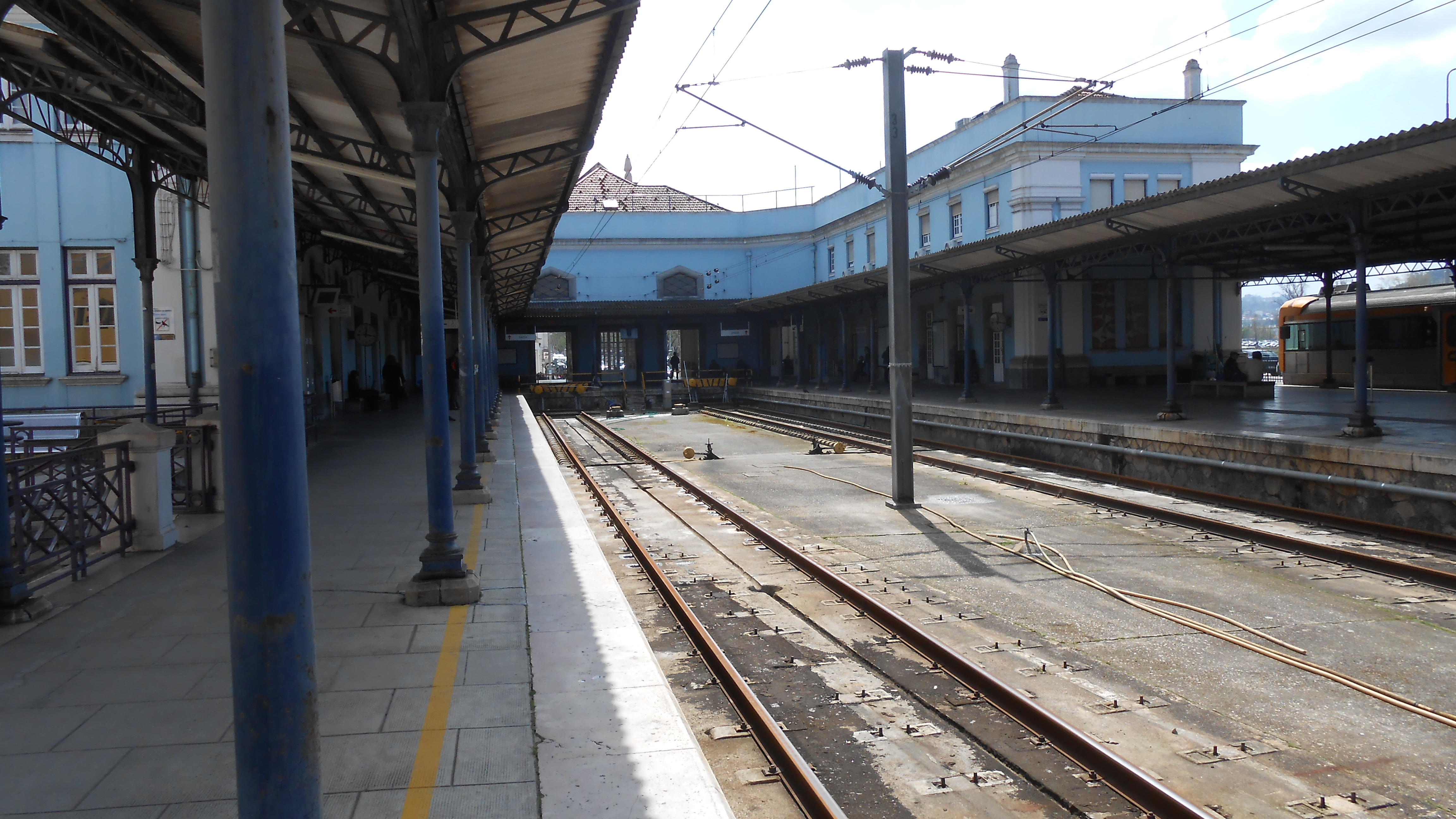 Inside Coimbra A train station, also named "Estação Nova" (new train station) or "Coimbra Cidade" (Coimbra city).